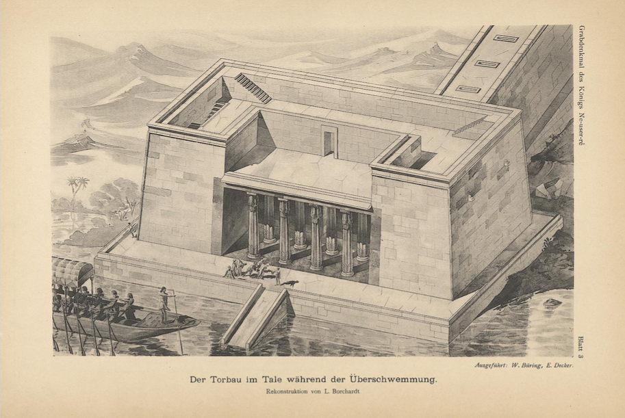 A painting by W. Büring and E. Decker depicting the valley temple to Nyuserre Ini's complex as it may have appeared in the time of the Old Kingdom.